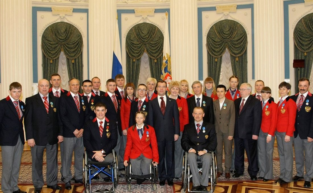 Paralympic Games. Russia.